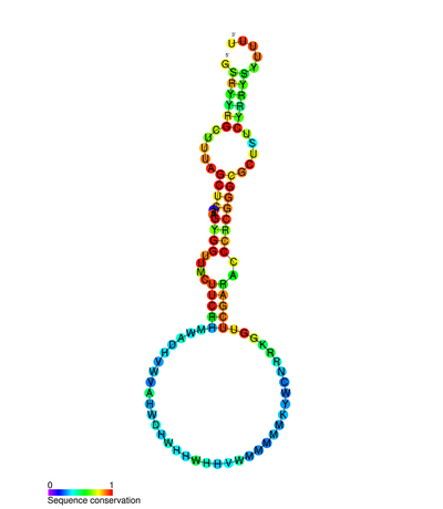 Vault RNA secondary structure and sequence conservation.